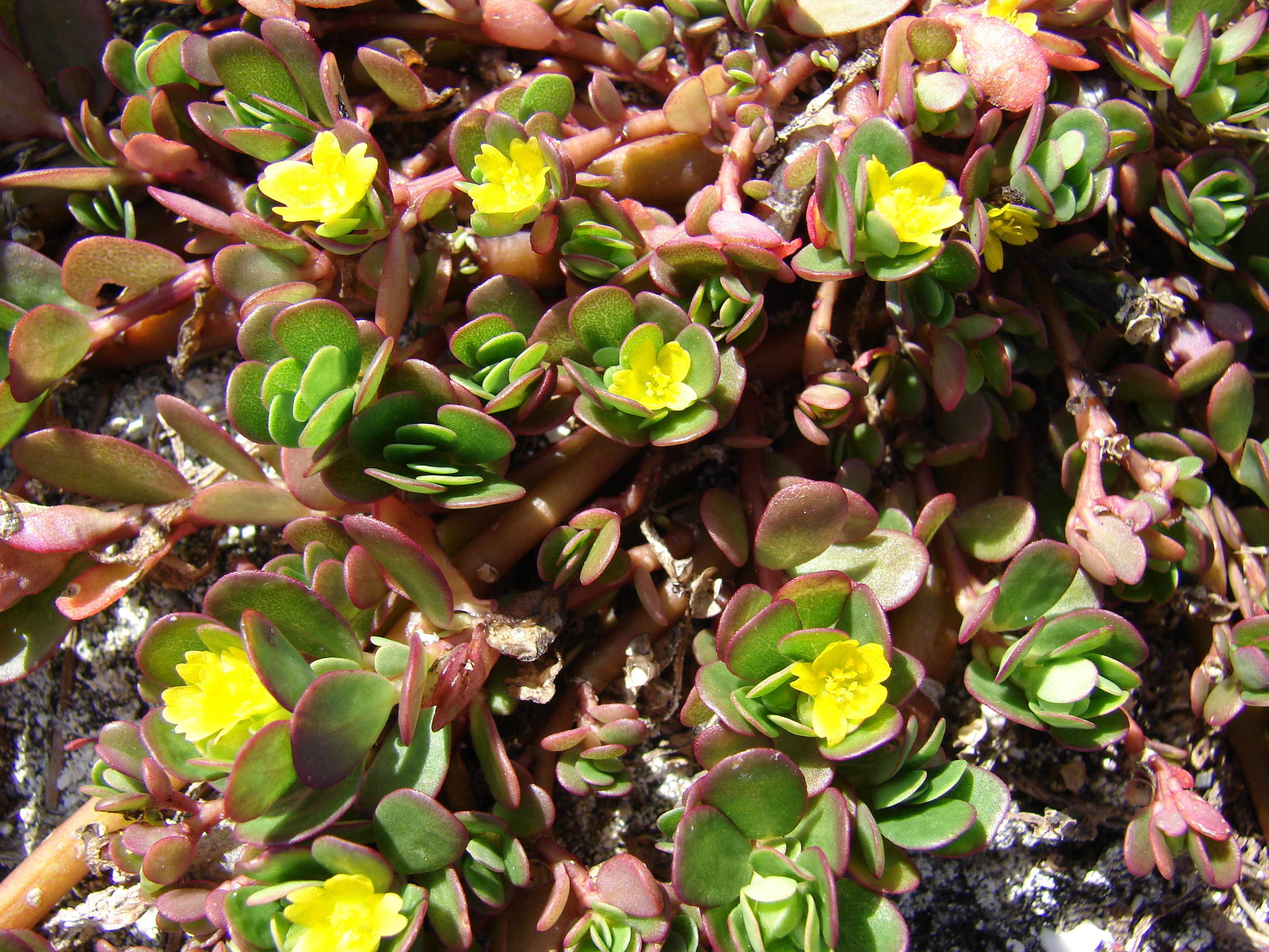 Portulaca oleracea (flowers). Location: Midway Atoll, Along coast east of Bulky Dump Sand Island